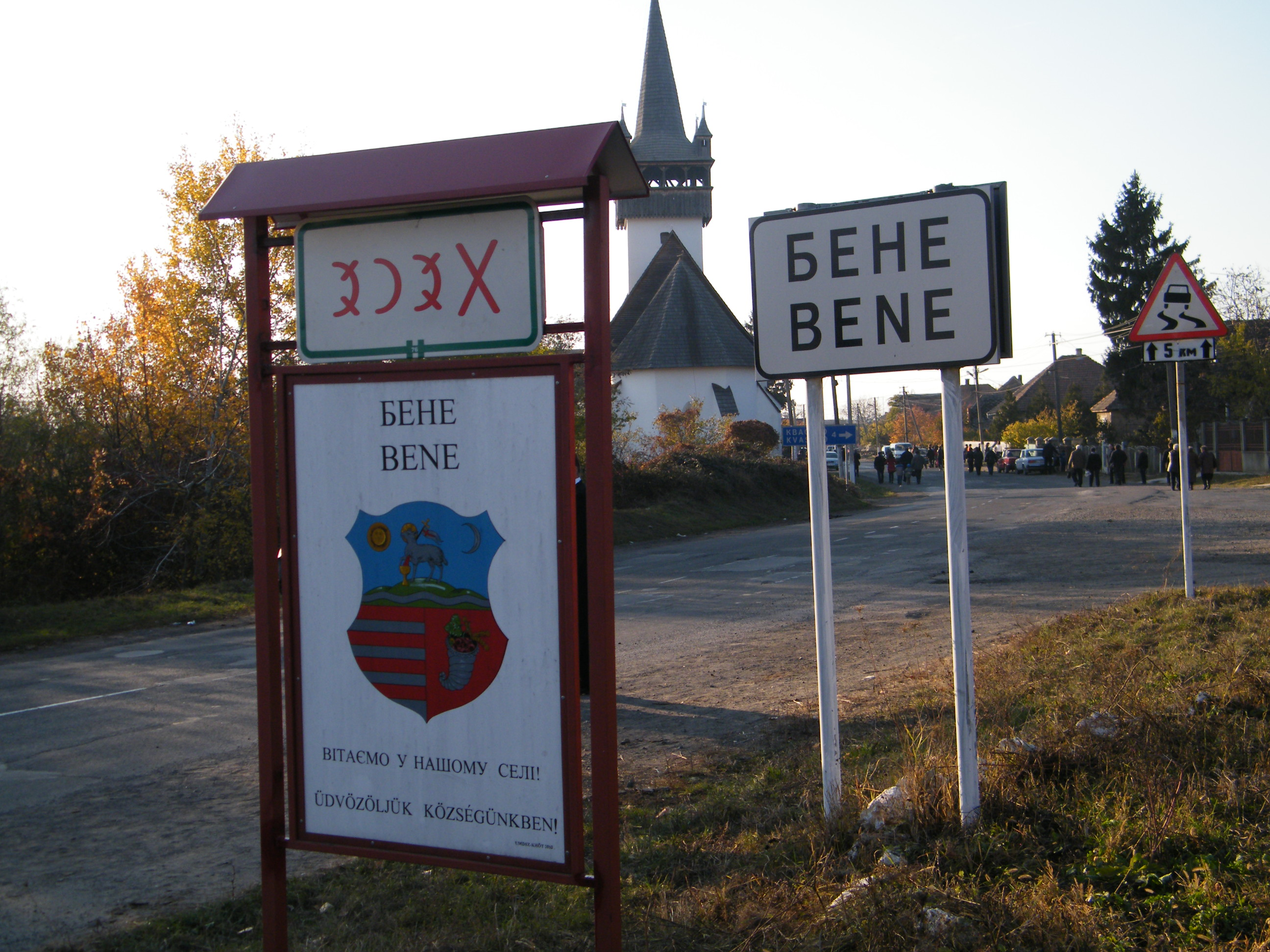 City limit table in Bene / Бене, Ukraine. Traditional Hungarian letters (rovas)